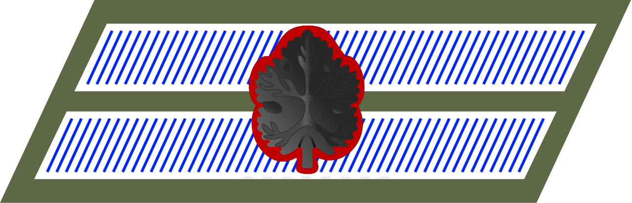 IDF Ranks Rav turai rishon 1968-1972